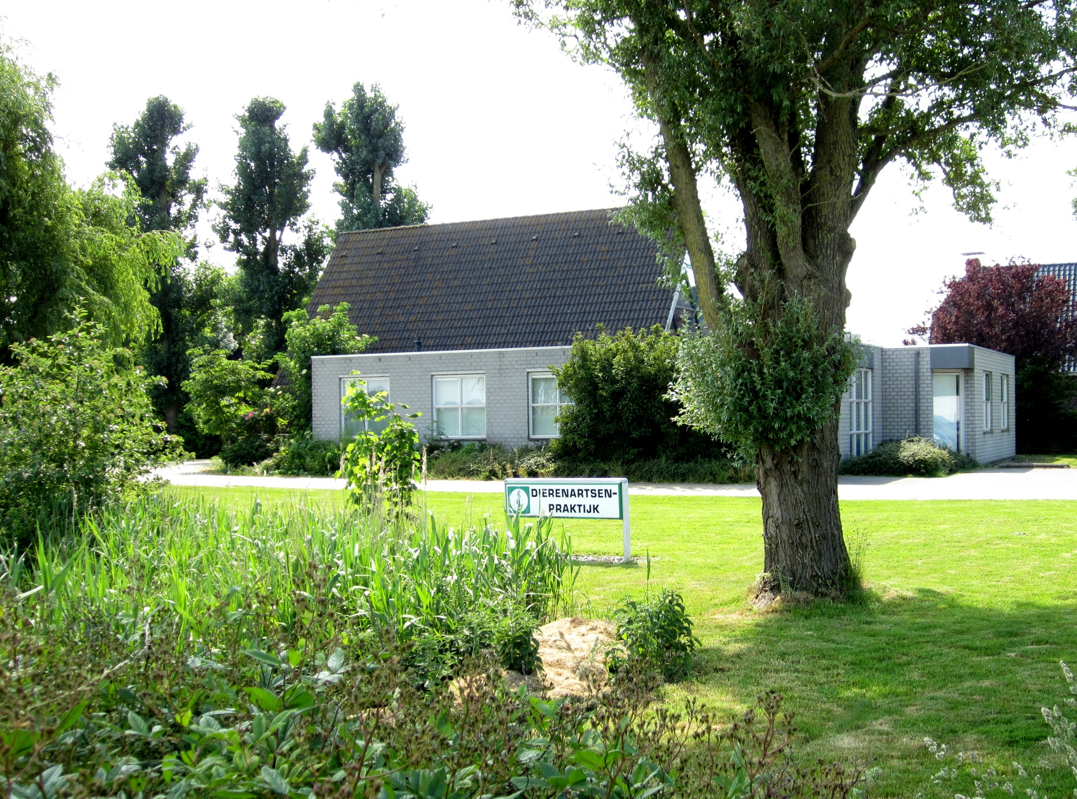 Veterinary clinic "It Griene Hert" (translates as "The Green Heart"), in Wommels, Friesland, the Netherlands.